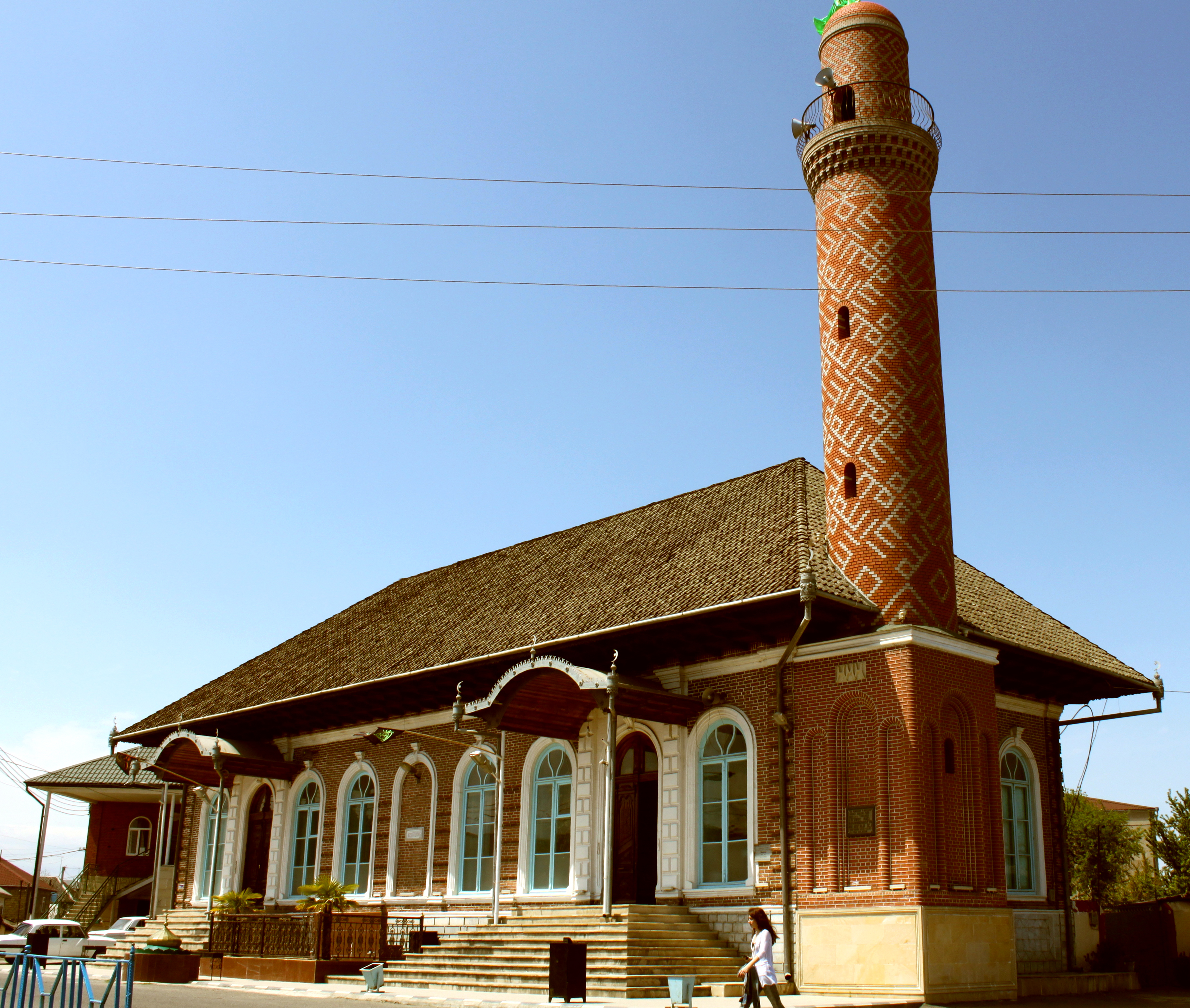 Kiçik bazar mosque